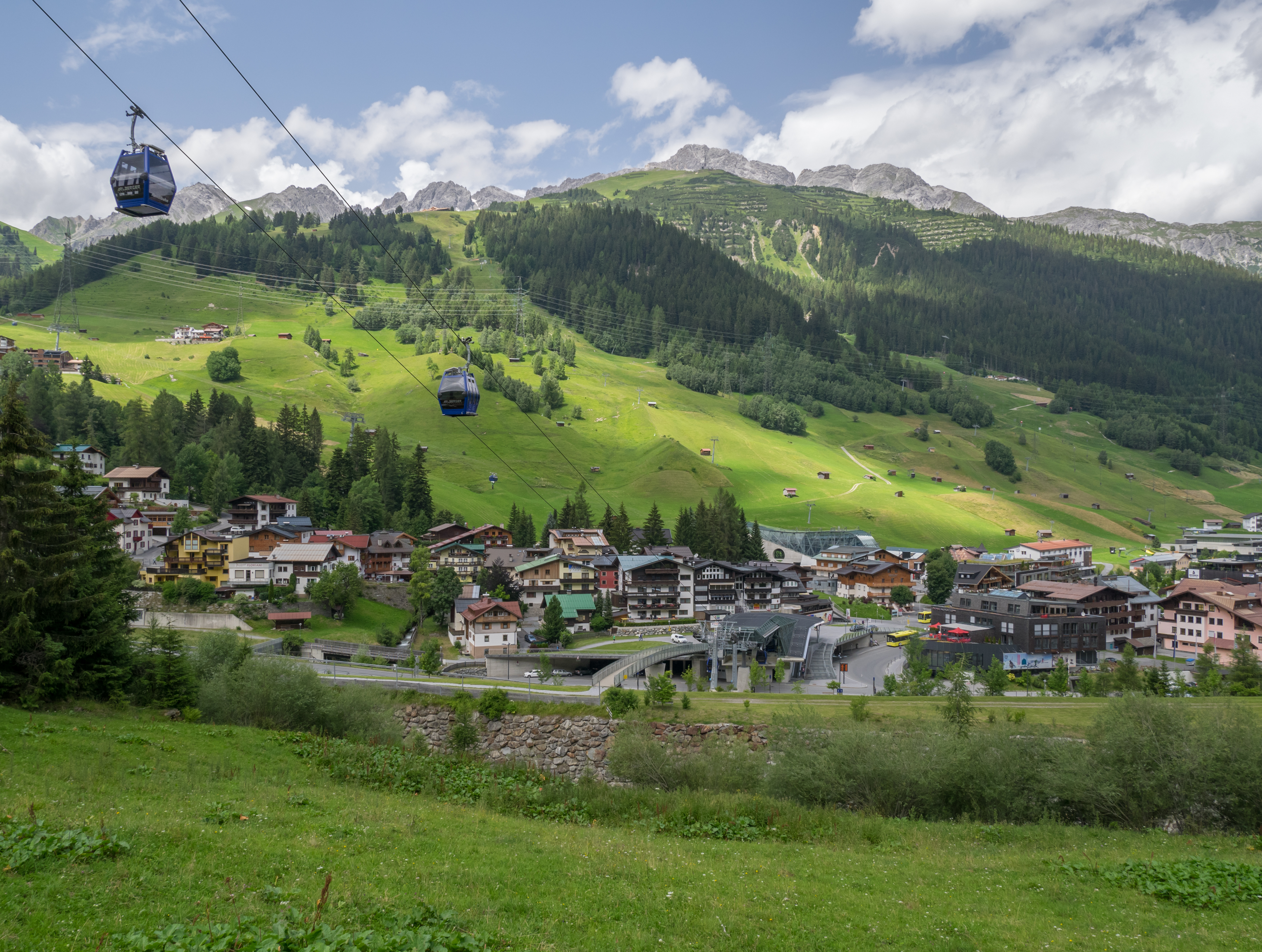 St. Anton am Arlberg, ski lift Rendlbahn. Tyrol, Austria